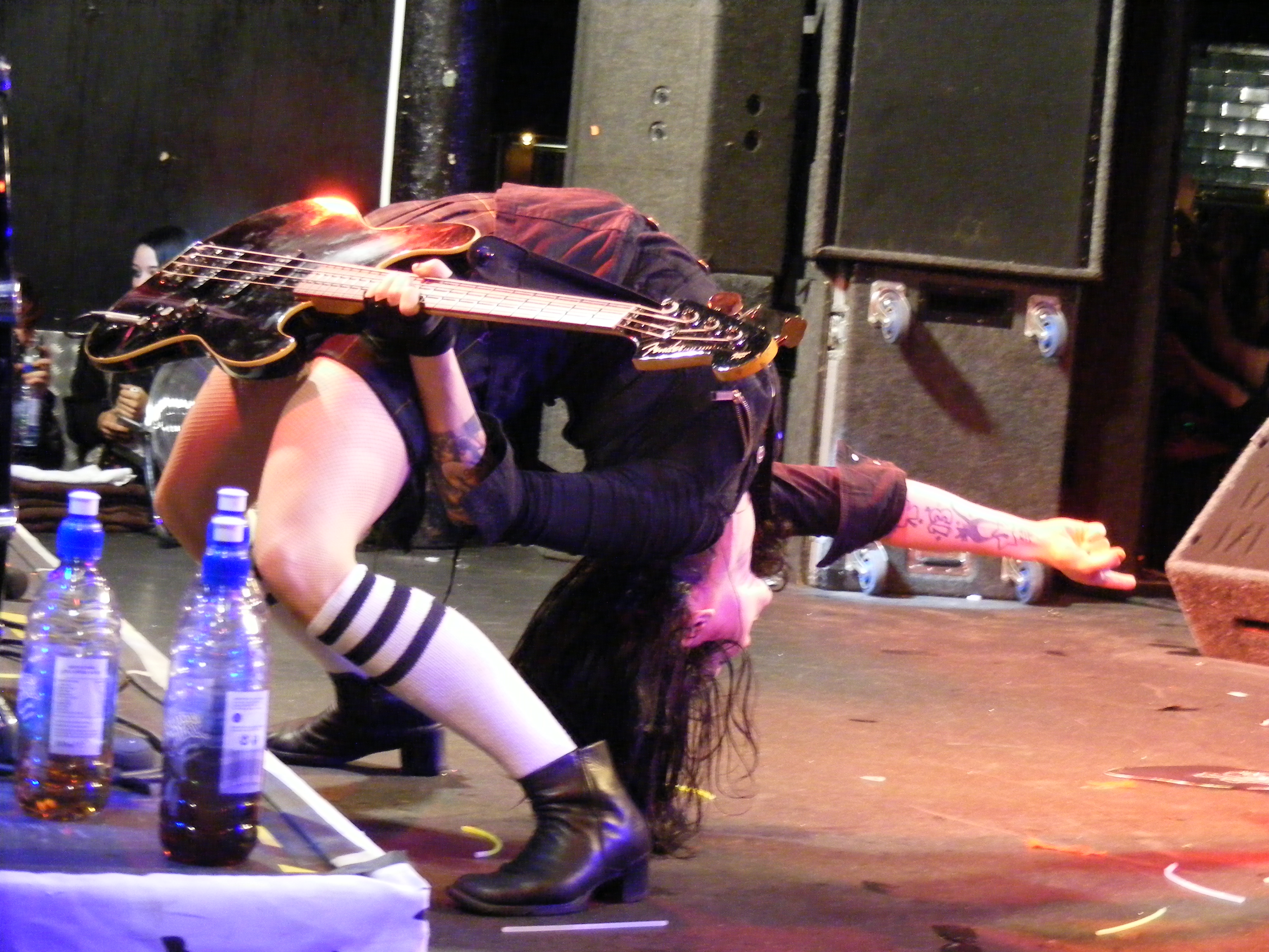 Lynz on stage.